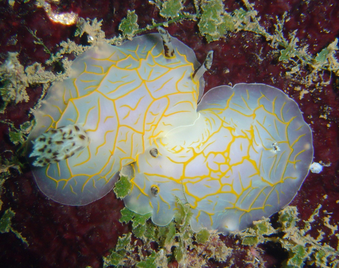 Halgerda guahan Image ID: reef1141, NOAA's Coral Kingdom Collection Location: Guam, Mariana Islands